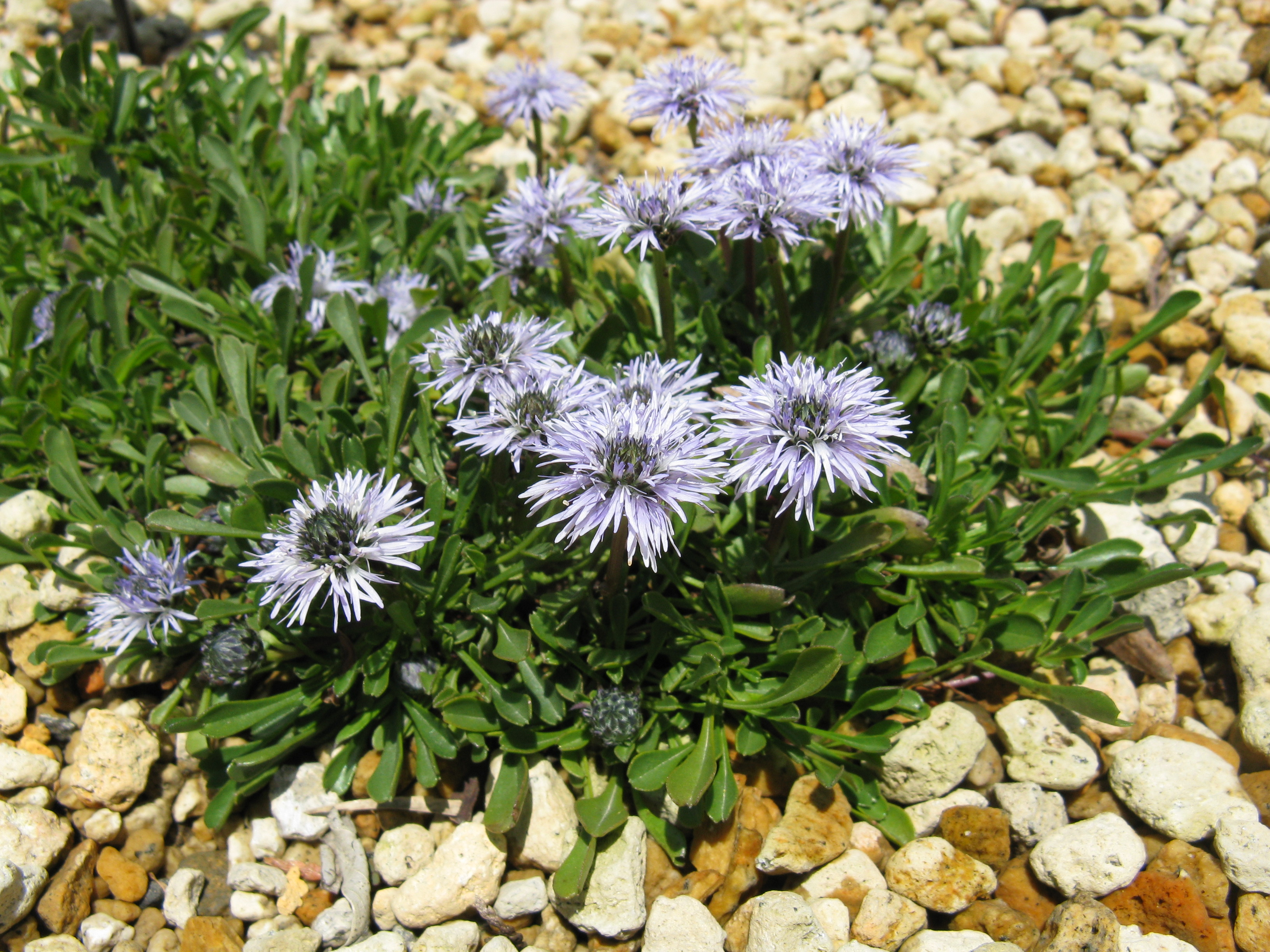 Globularia repens Place:Osaka Prefectural Flower Garden,Osaka,Japan